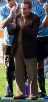 Alcides Edgardo Ghiggia during a pre-match ceremony in honor of Diego Forlán's golden ball awarded on the 2010 FIFA World Cup.